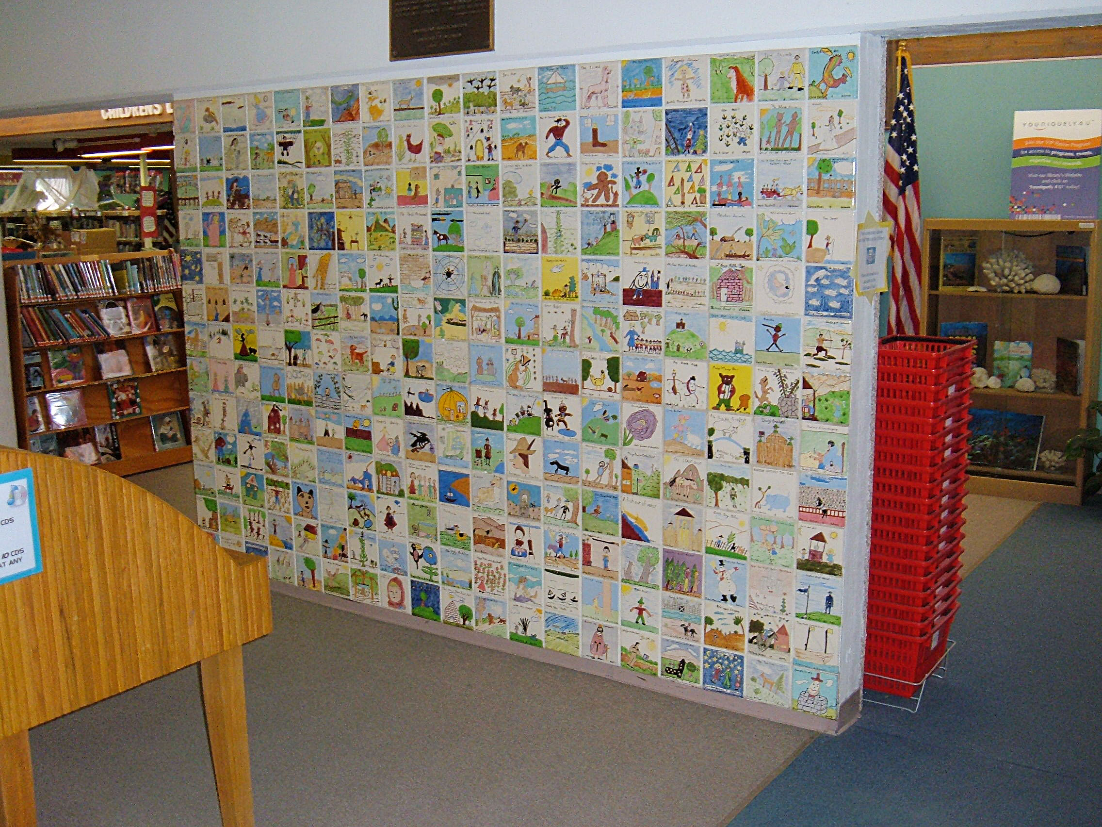 Story Book Wall at Alamogordo (New Mexico) Public Library, outside the Children's Library. Dedicated May 1963. Local schoolchildren drew illustrations for their favorite story books and these were transferred to ceramic tiles and baked on.